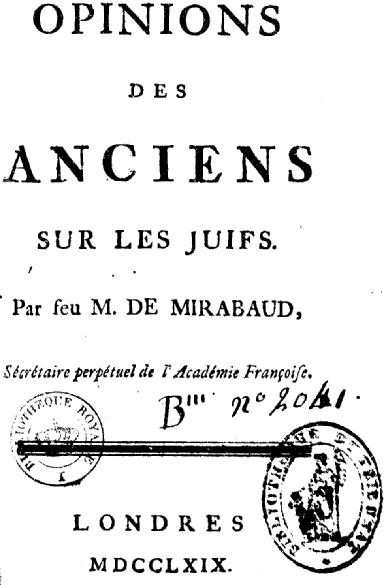 First page of: Jean-Baptiste de Mirabaud: Opinions des anciens sur les juifs, 1769